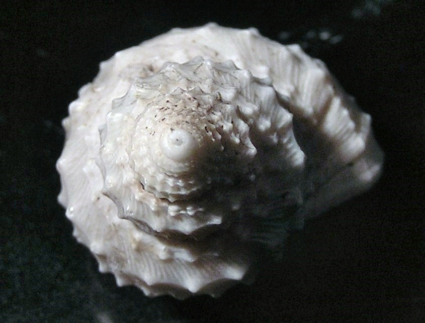 Ginebis crumpii Pilsbry, 1893 , a top snail from the family Trochidae; Taiwan